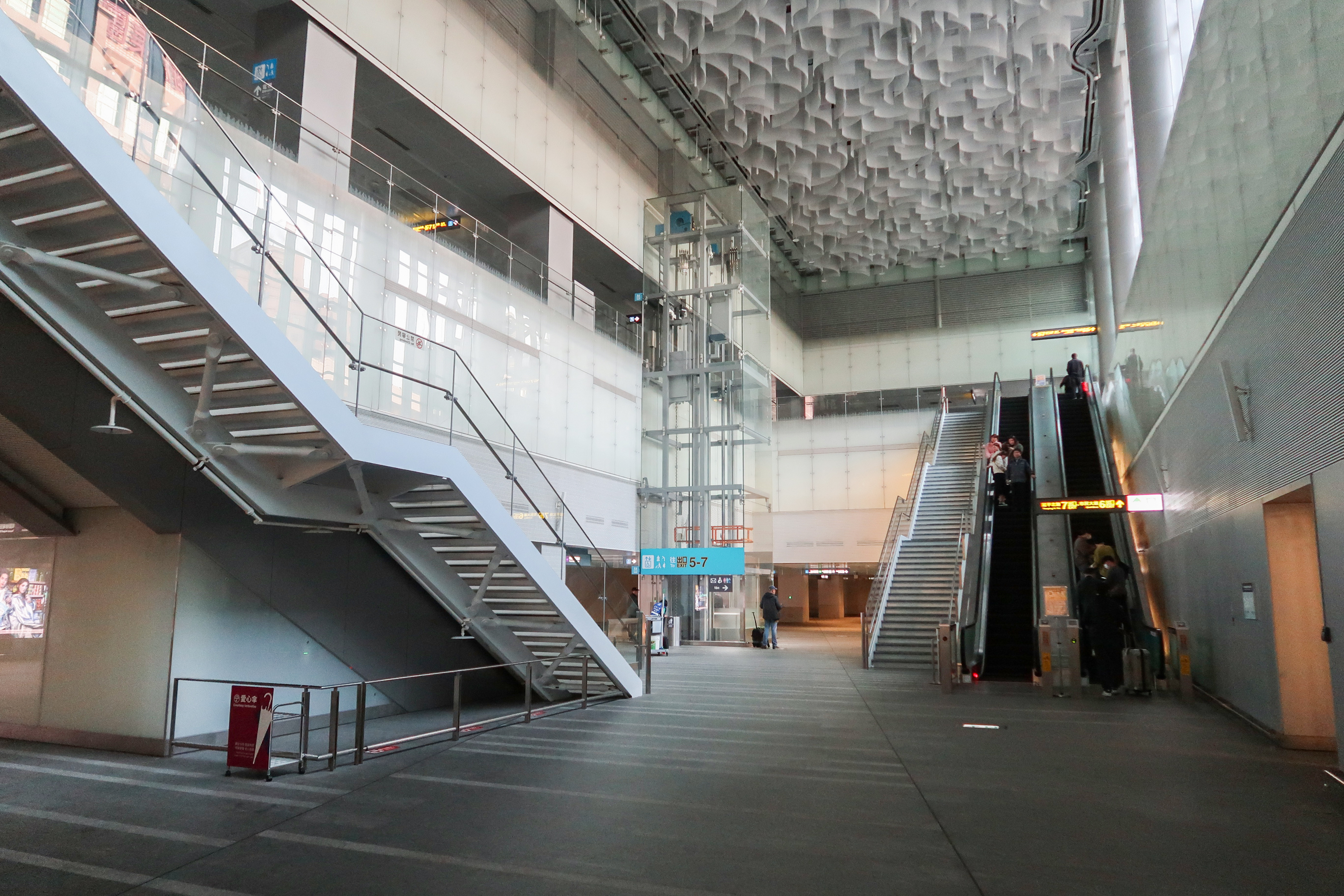 Taipei Main Station Taoyuan Metro Exit 7